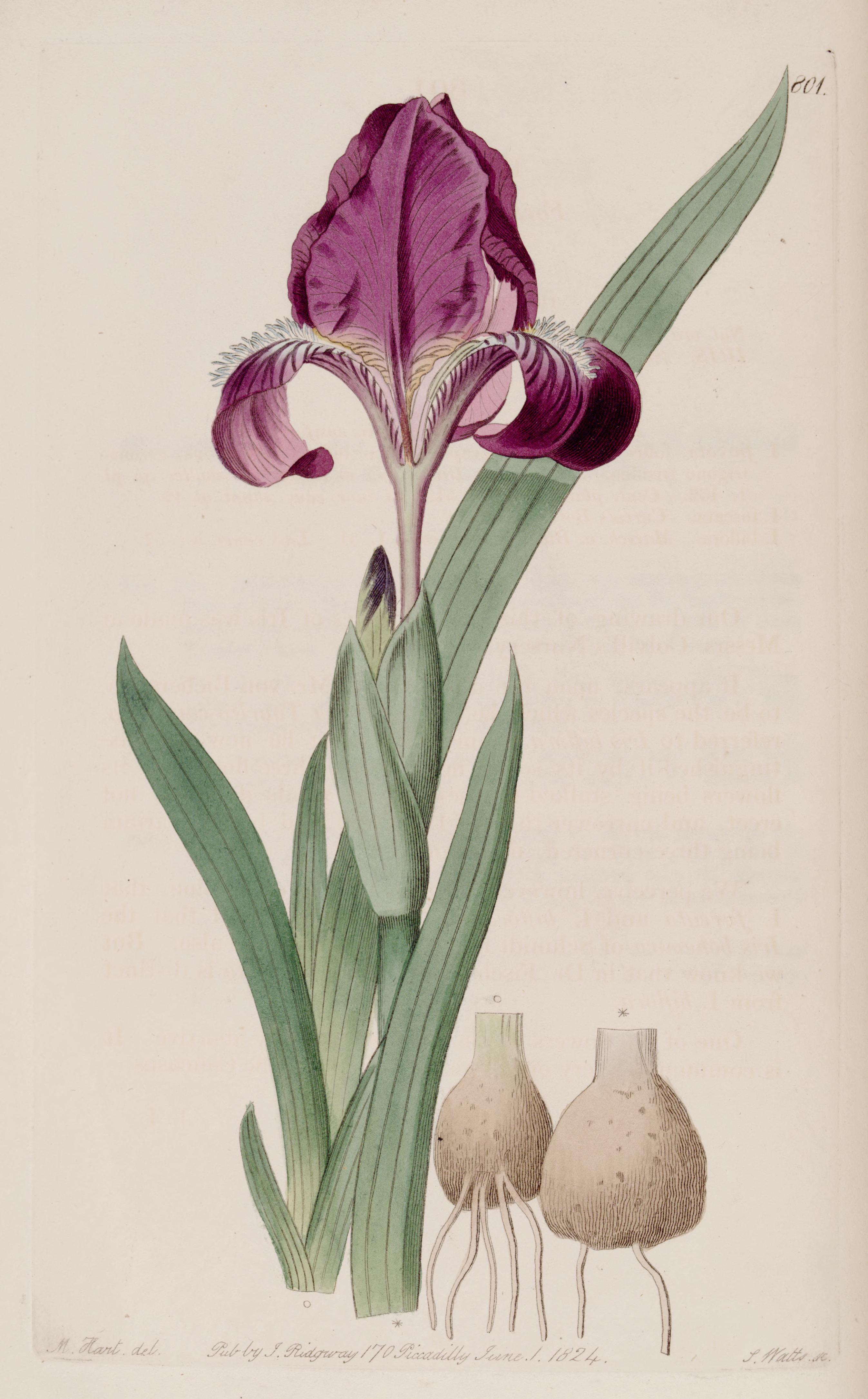 Painting of Iris furcata in The Botanical Register by Sydenham Edwards